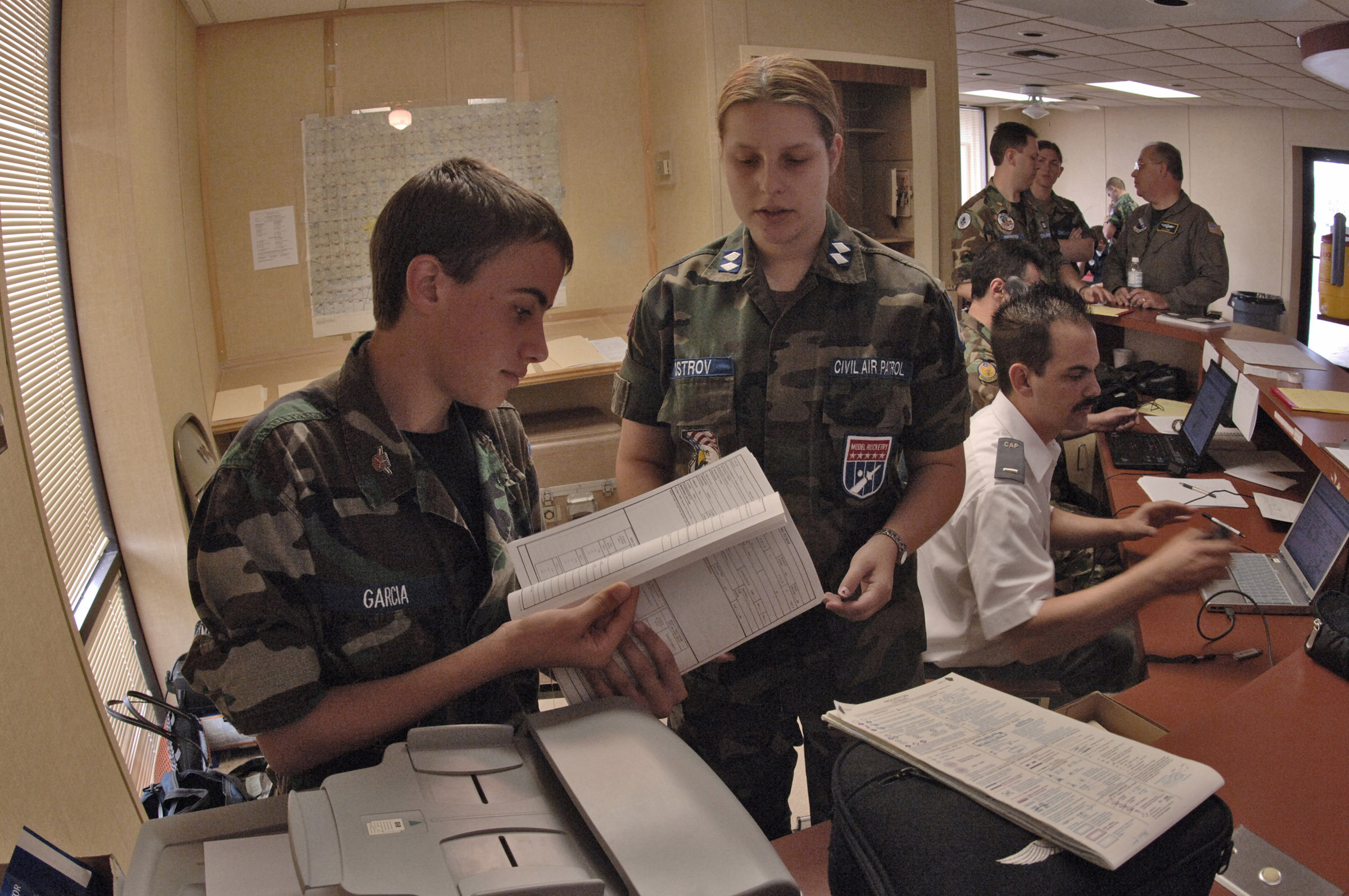 HOUSTON, Texas -- Cadet Lauren Ostrov (center), Cadet Airman Eric Garcia (left), and 1st Lt. Andrew Dice perform administrative duties at the Civil Air Patrol flight operations counter in the CAP facilities at the West Houston Airport on 26 Sept. (U.S. Air Force photo by Master Sgt. Lance Cheung)